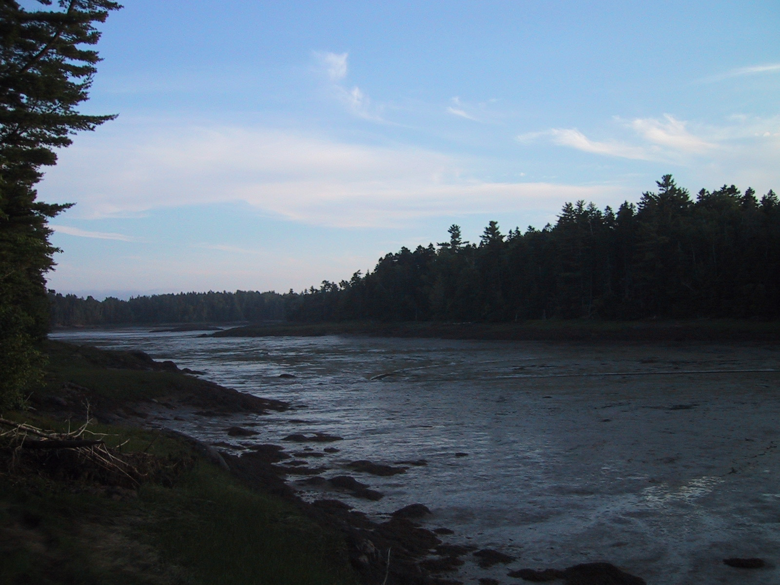 Broad Cove, Cobscook Bay State Park in Maine at low tide